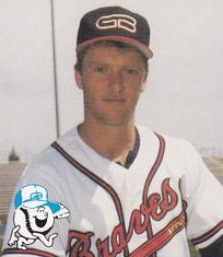 Professional baseball player Dale Polley